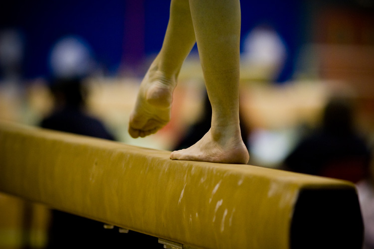 Gymnast feet on beam.